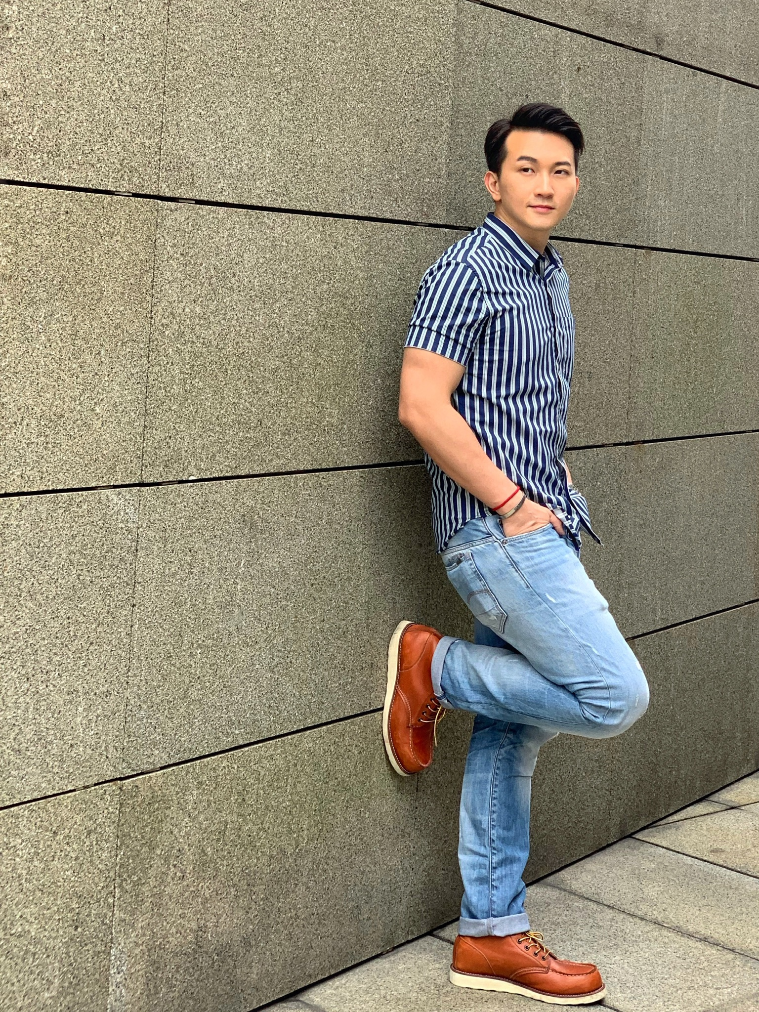 Andy Wong debuted in 2009, becoming famous for TVB sitcom, Come Home Love: Lo and Behold (2018) .